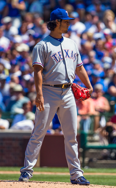 Yu Darvish